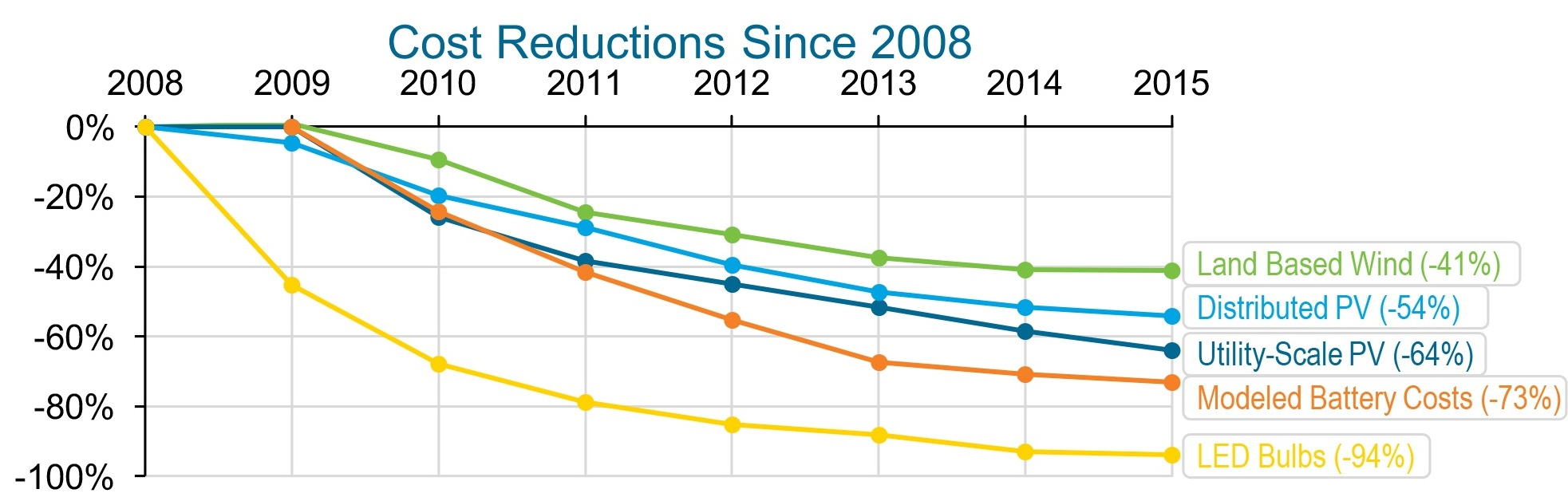 Cost reductions of windpower, solar photovoltaics, battery and LED lighting 2008-2015, September 2016